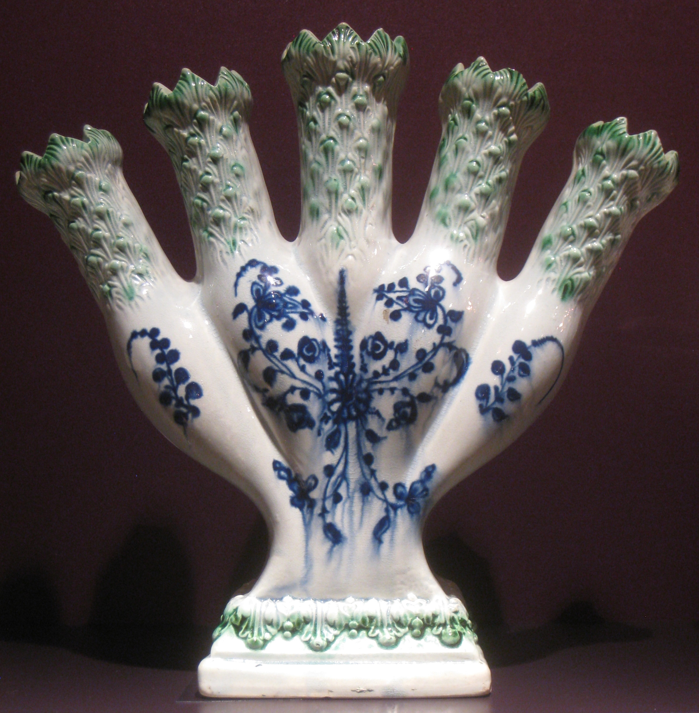 Vase, pearlware with underglaze painted blue and green enamel; Leeds Pottery, circa 1780. Pottery exhibited in the DAR Museum, National Society Daughters of the American Revolution, 1776 D Street NW, Washington, DC, USA.